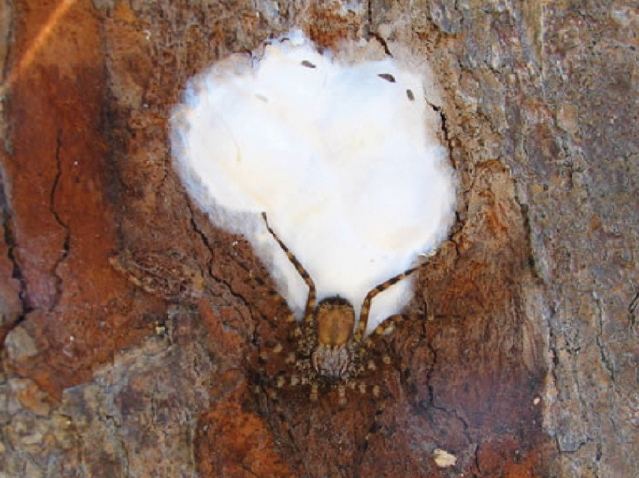 Selenops lindborgi